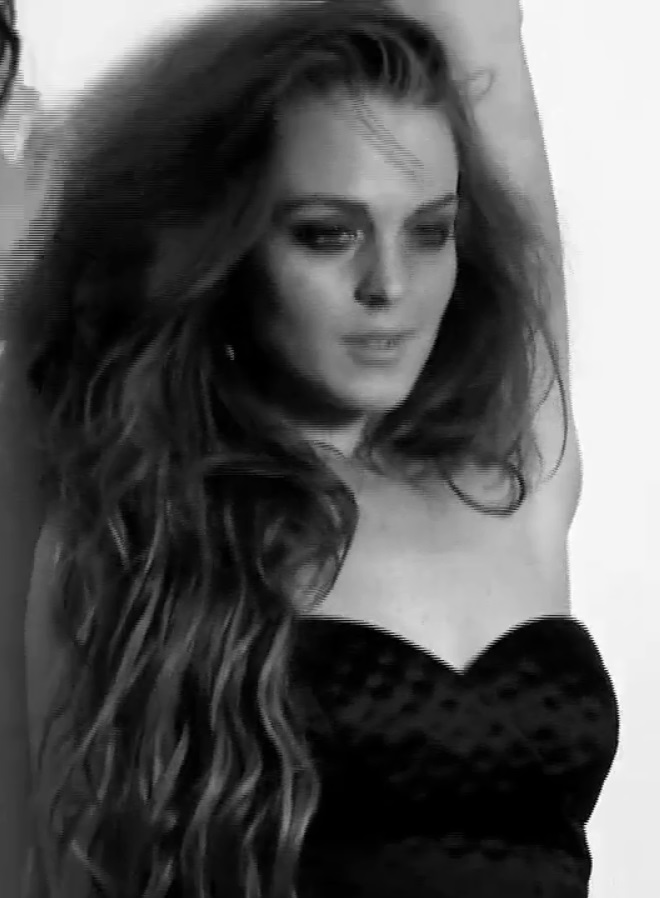 Lindsay Lohan in a photoshoot for Elle magazine in 2009